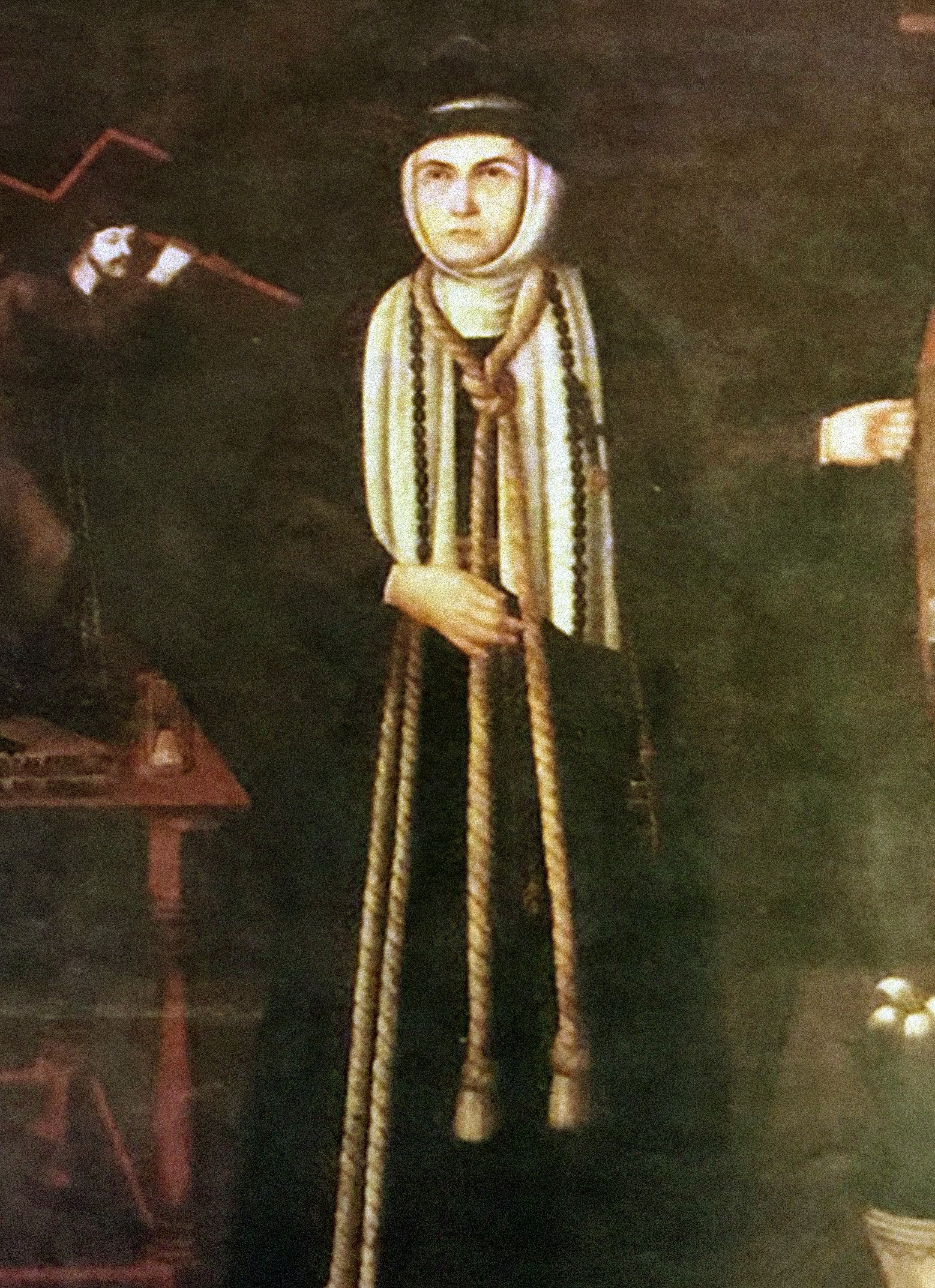 Picture of Antonia Lucia del Espíritu Santo (Antonia Lucía Maldonado Verdugo)